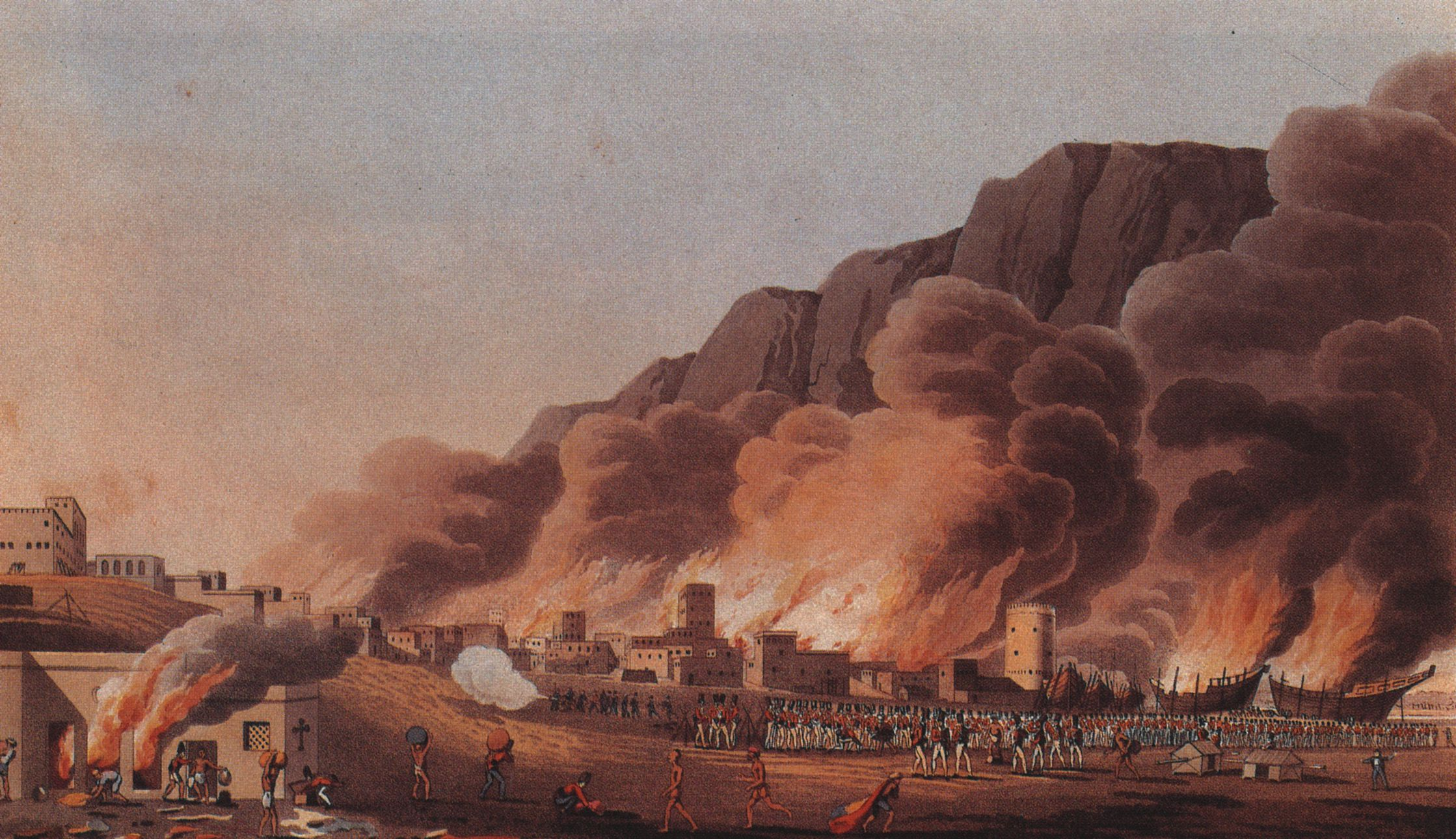 The British Expeditionary Force of 1809 sacking Ras Al Khaimah, today in the United Arab Emirates